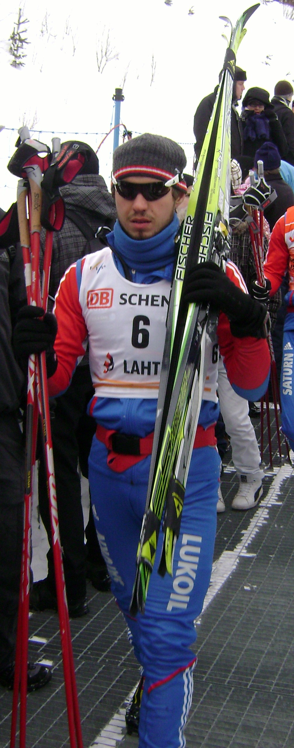 Russian cross country skier Ilia Chernousov at Lahti Ski Games 2010.